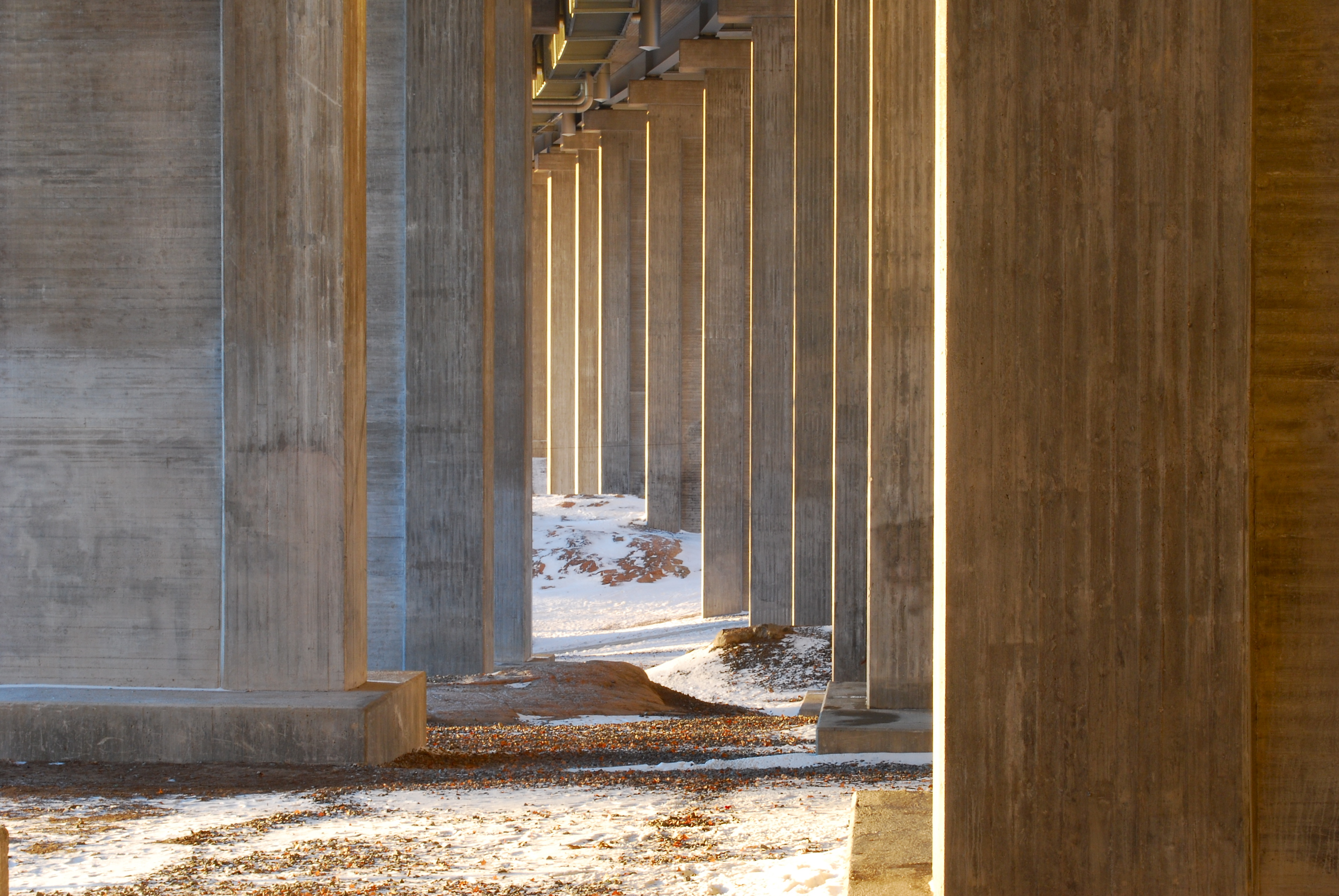 Underneath the Tranebergsbron in Stockholm, Sweden.